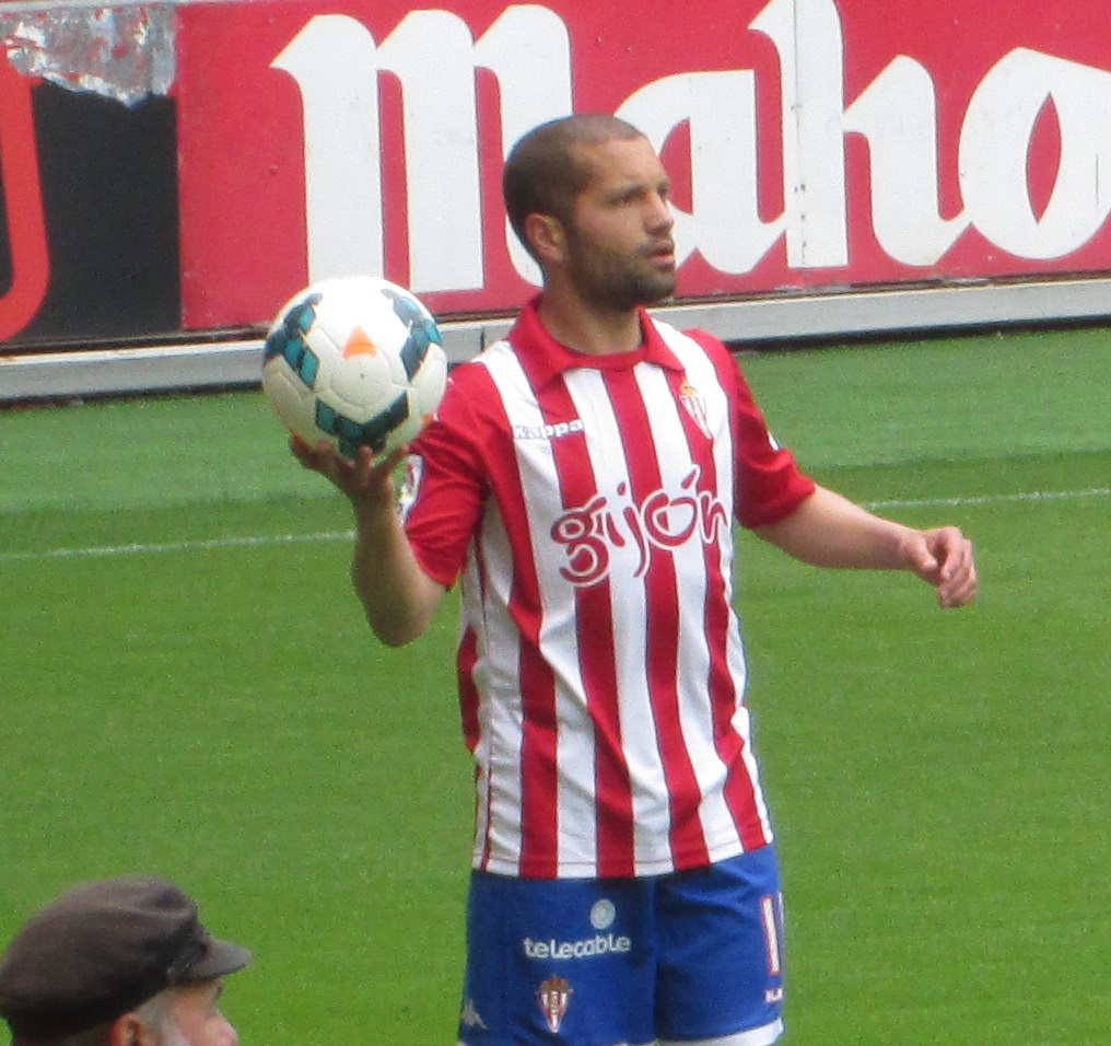 Alberto Lora, in a game for Sporting de Gijón